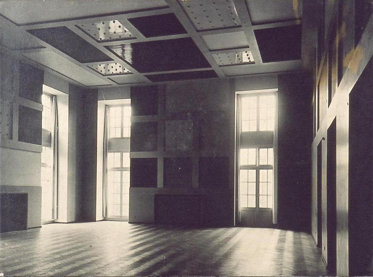 Theo van Doesburg. Grande Salle des Fêtes, Aubette, Place Kléber Strasbourg. 1928. Photo. 29.5 × 40 cm. The Netherlands Institute for Cultural Heritage.